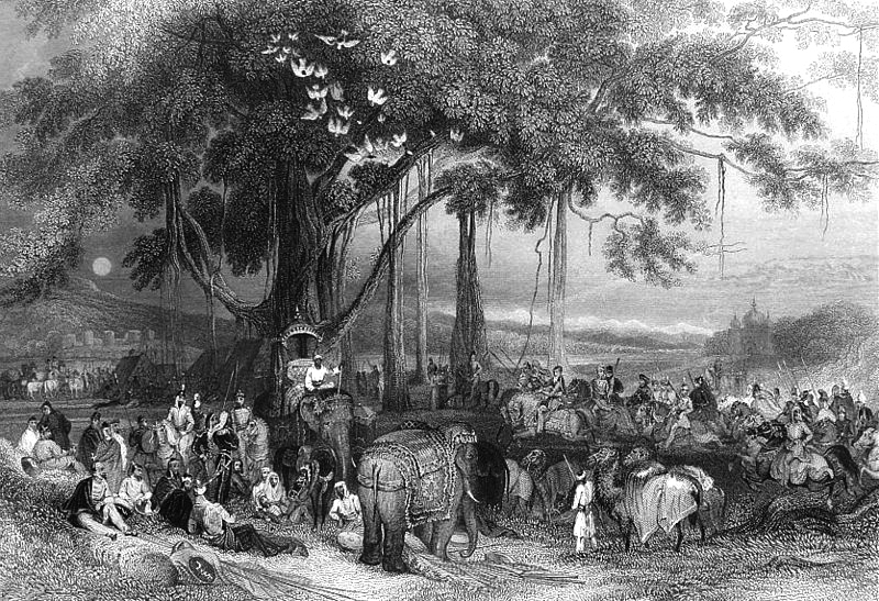 "Runjeet Singh and his Suwarree, or Cavalcade, of Seiks Encamped under a Banyan Tree on the River Sutlej," a steel engraving by Fisher and Son, London, 1837, based on a drawing made in 1831